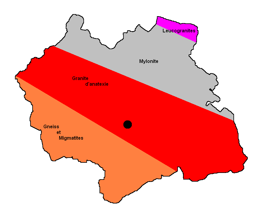 Simplified geological map of Theix (Morbihan, France)